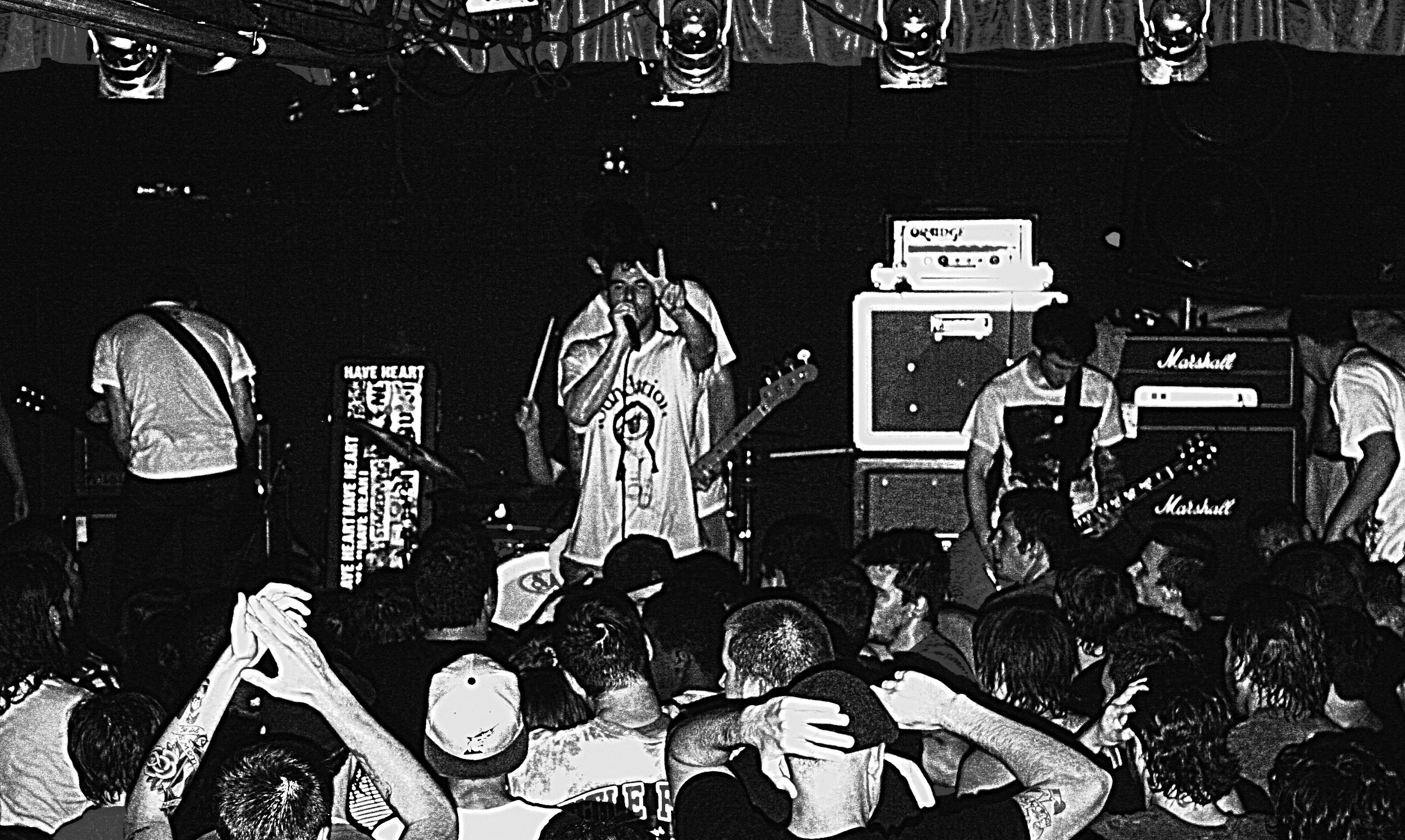 Have Heart in Jacksonville Florida. The final song for the only stop in Florida on the "End of the World Tour" The show had 373 in attendance in a venue that only held 300.